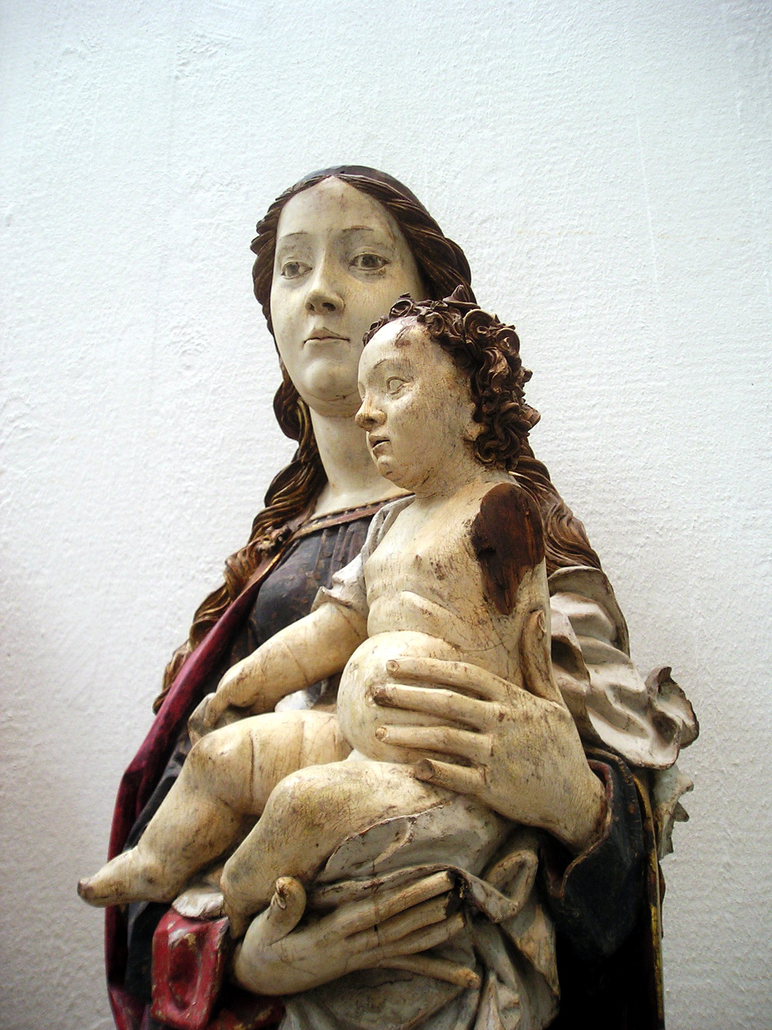 Statue of Madonna and Child, Historisches Museum, Frankfurt Photography by F. Bucher